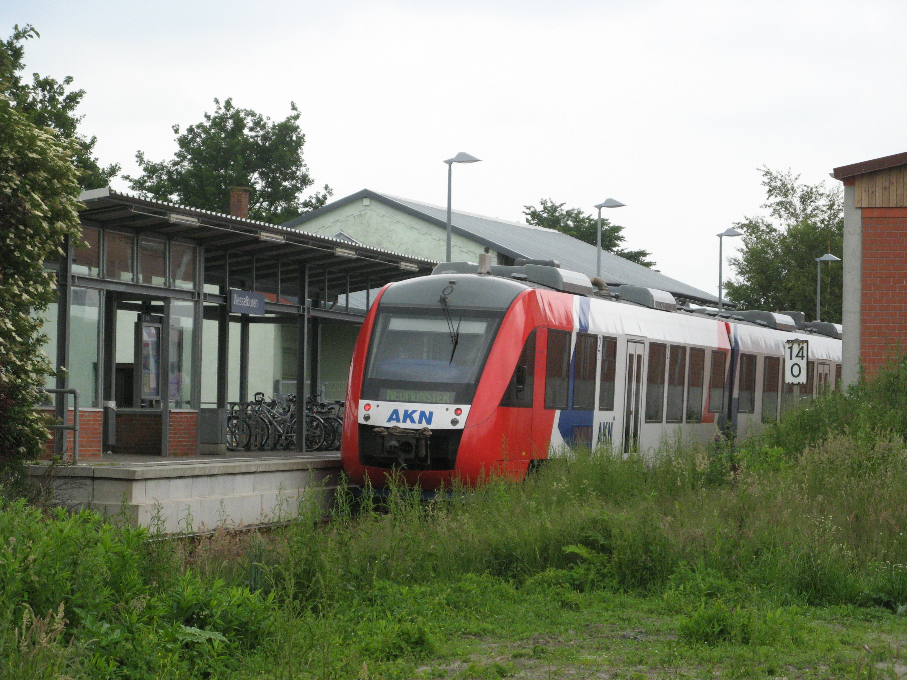 train station wesselburen with train